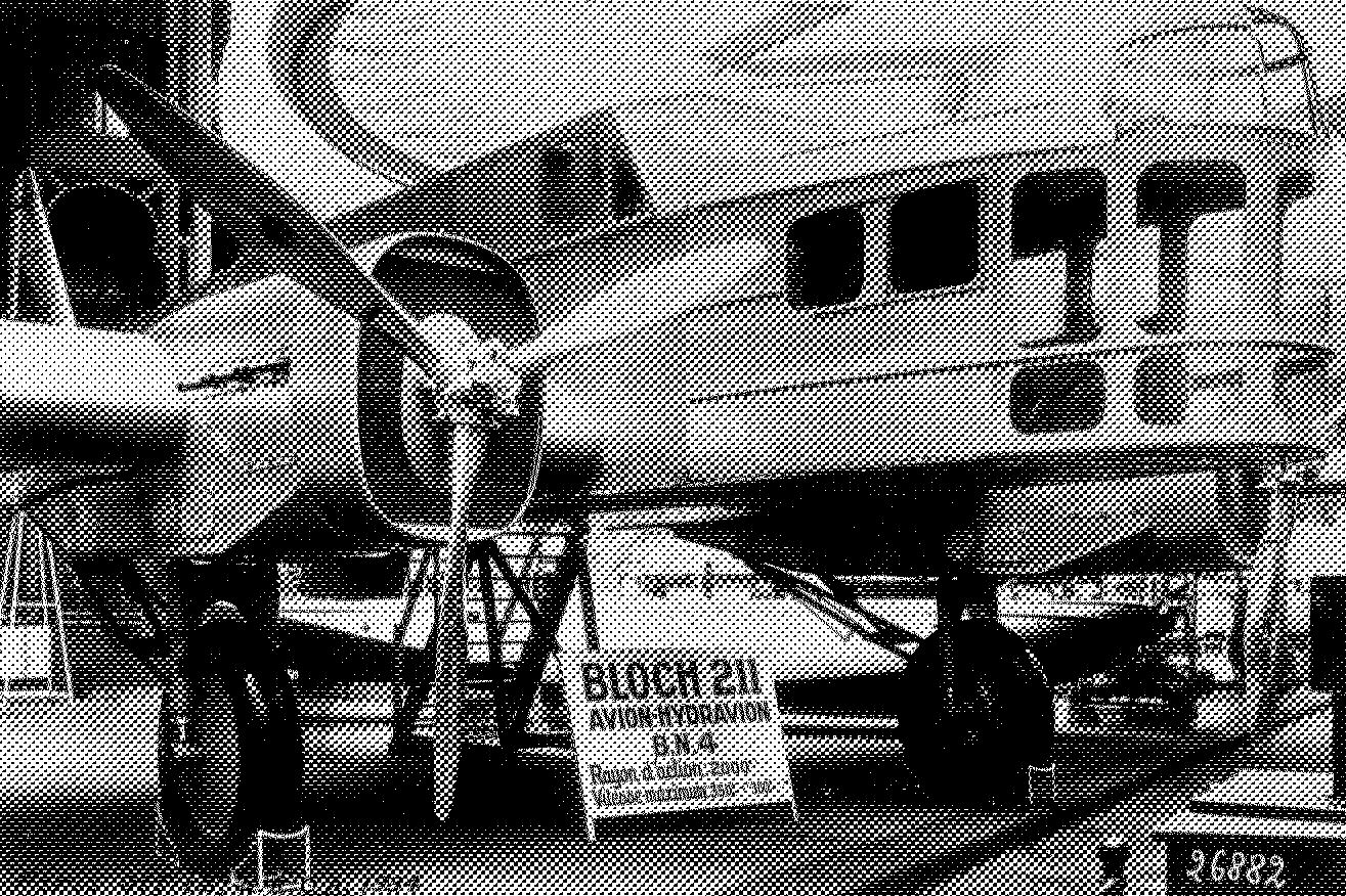 Bloch MB.211 photo from NACA-SR-26